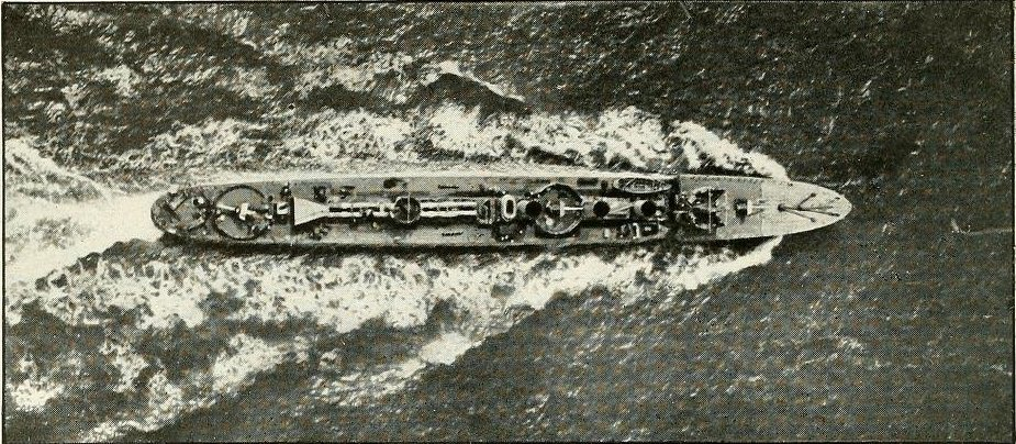 Aerial photograph of British Admiralty M class destroyer.